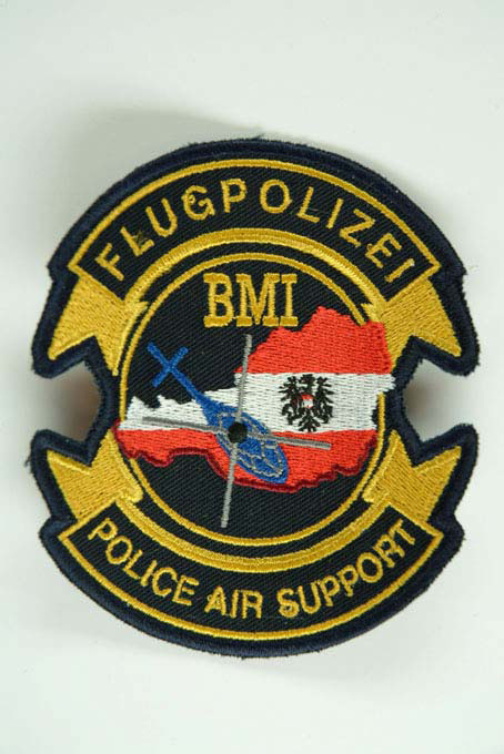 This image is in the public domain according to Austrian copyright law because it is part of a law, ordinance or official decree issued by an Austrian federal or state authority, or because it is of predominantly official use. (§7 UrhG) To uploader: Please provide where the image was first published and who created it. Bundespolizei – Abzeichen (Flugpolizei)